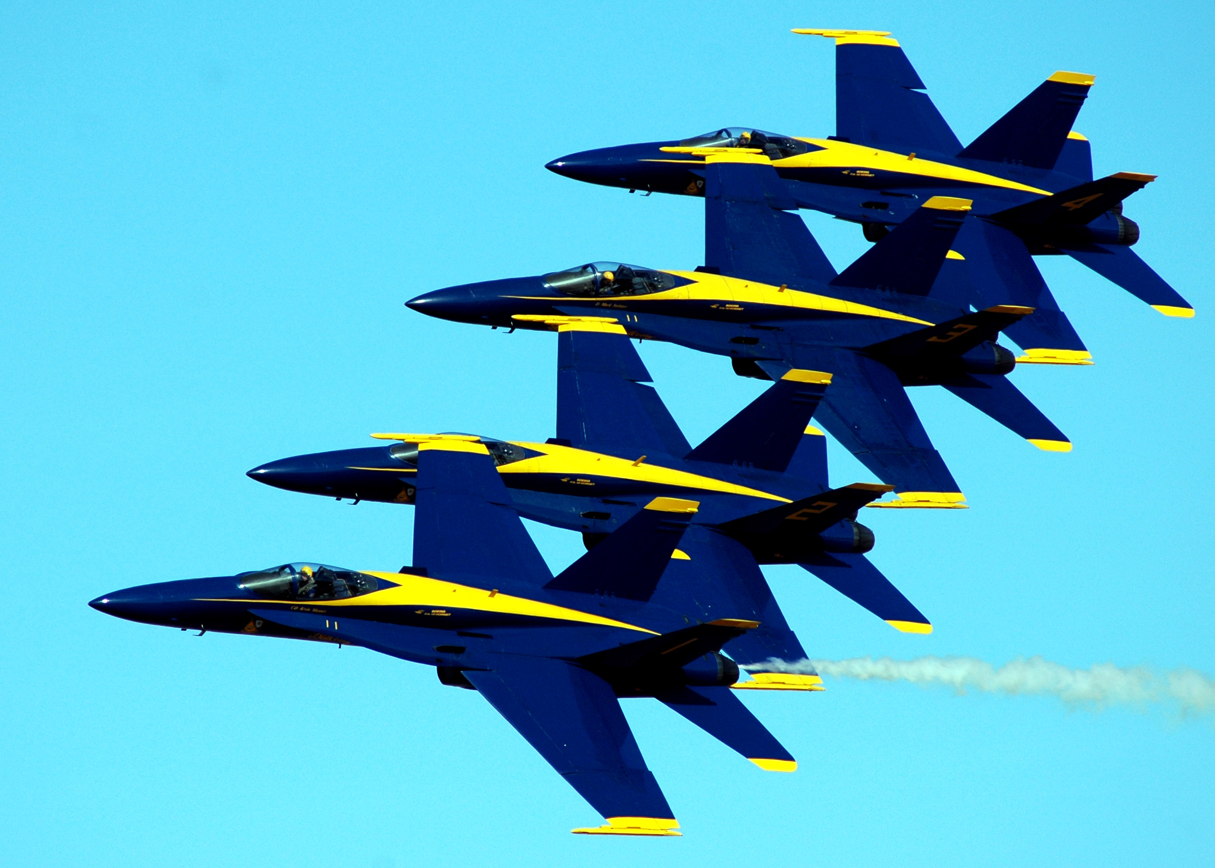 The Navy Flight Demonstration Squadron, the Blue Angels, perform at the El Centro Air Show.